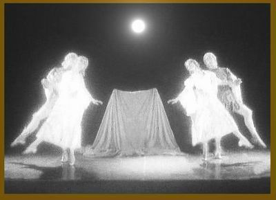 Yuri Khanon “L’Os de chagrin” (oc.38, 1990, “The Shagreen Bone” opera-interlude from the ballet “L’Os de chagrin”) - Final: Bourree (danse)